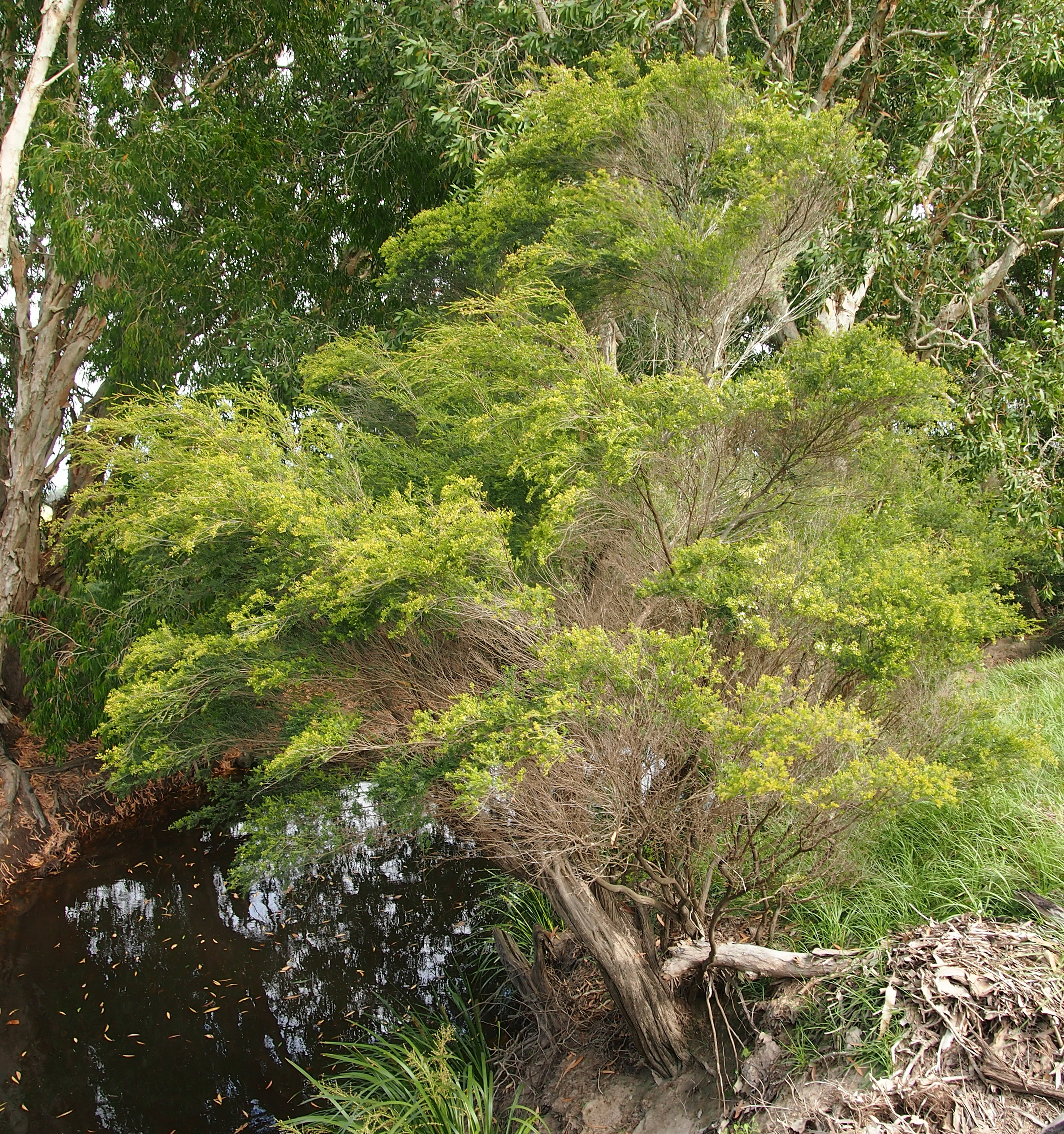 A mature Leptospermum neglectum plant